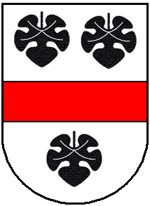 Coat of arms of Hüttwilen, Canton of Thurgau, SwitzerlandEsperanto: Blazono de Hüttwilen, Kantono Turgovio, Svislando